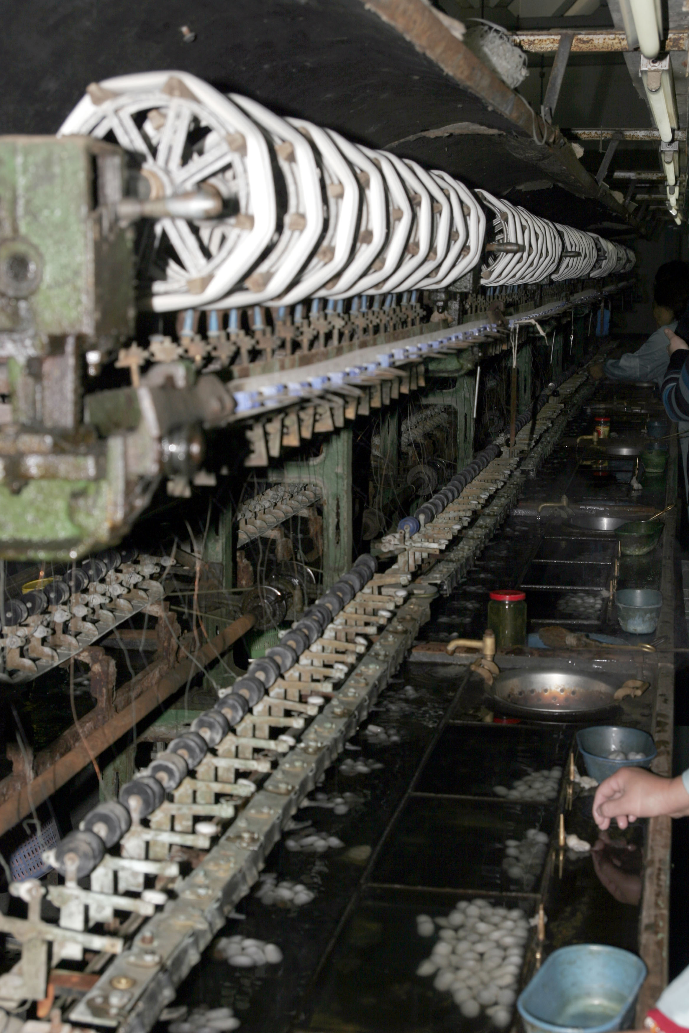 Silk production in the Suzhou No.1 Silk Mill in Suzhou (Jiangsu), China